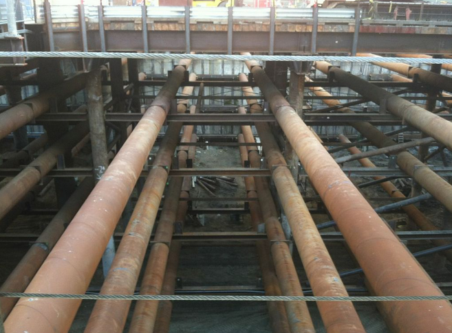 A look at the Transbay Transit Center construction site.